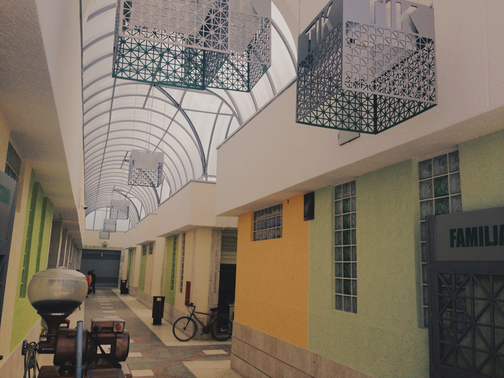 Tregu Kavajë